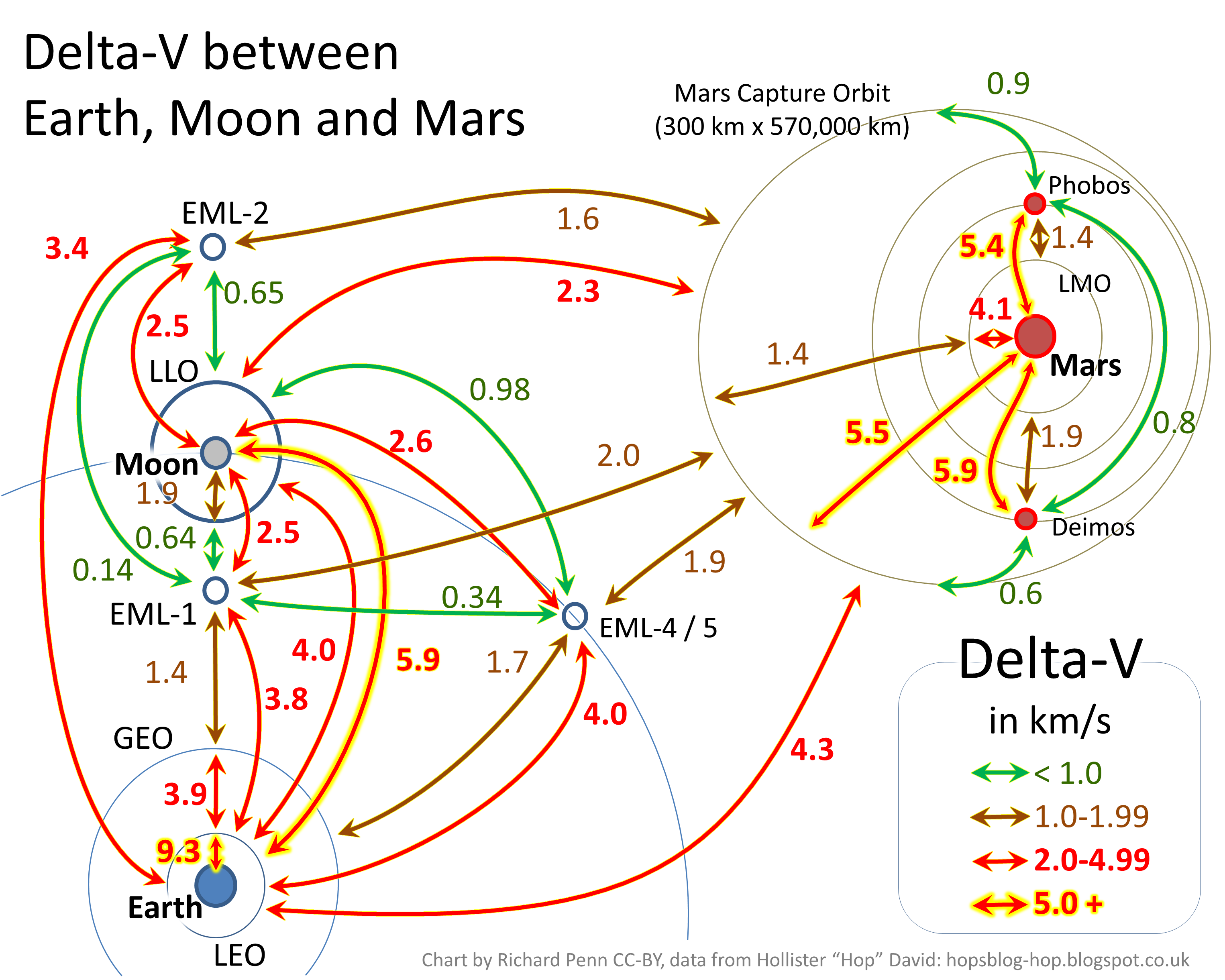 This is a chart of the Delta V (fuel costs) for travel between Earth, the Moon and Mars